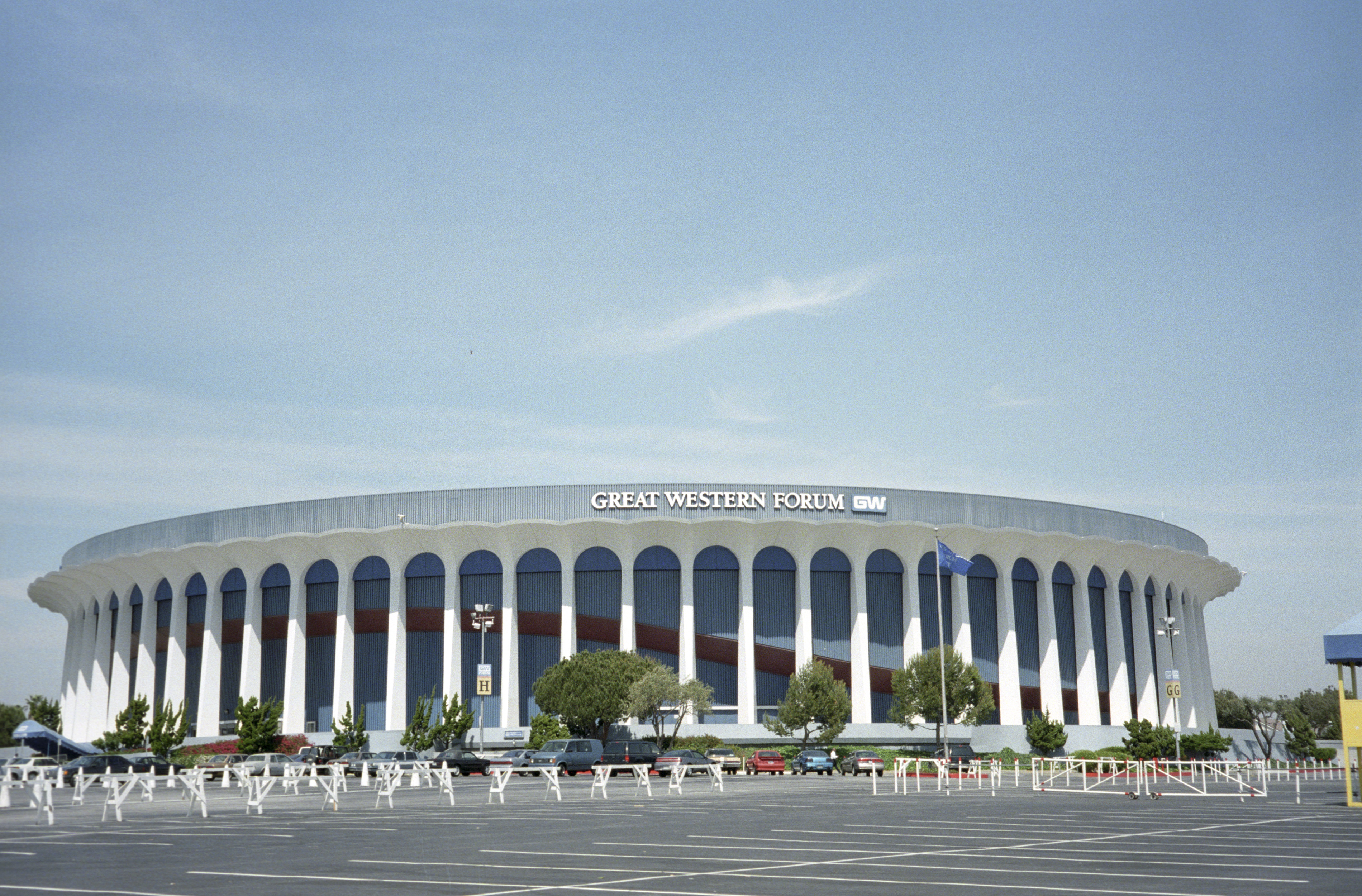 The Forum (Great Western Forum) — an indoor arena in Inglewood, Los Angeles area, California.